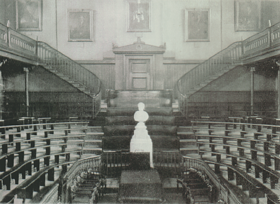 A vintage photograph of interior of the Royal High School Hall at Regent Road, Edinburgh.